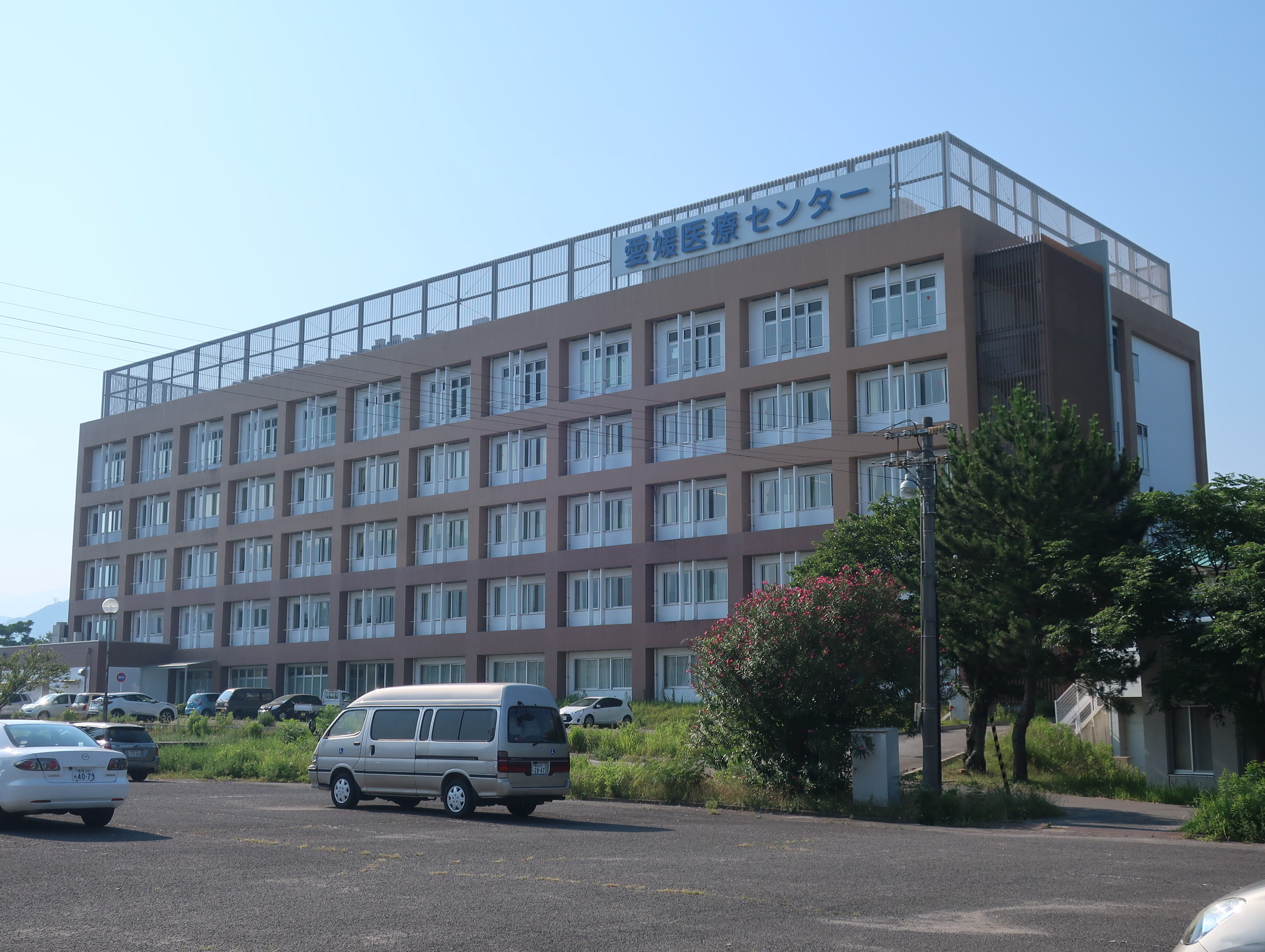 National Hospital Organization Ehime Medical Center